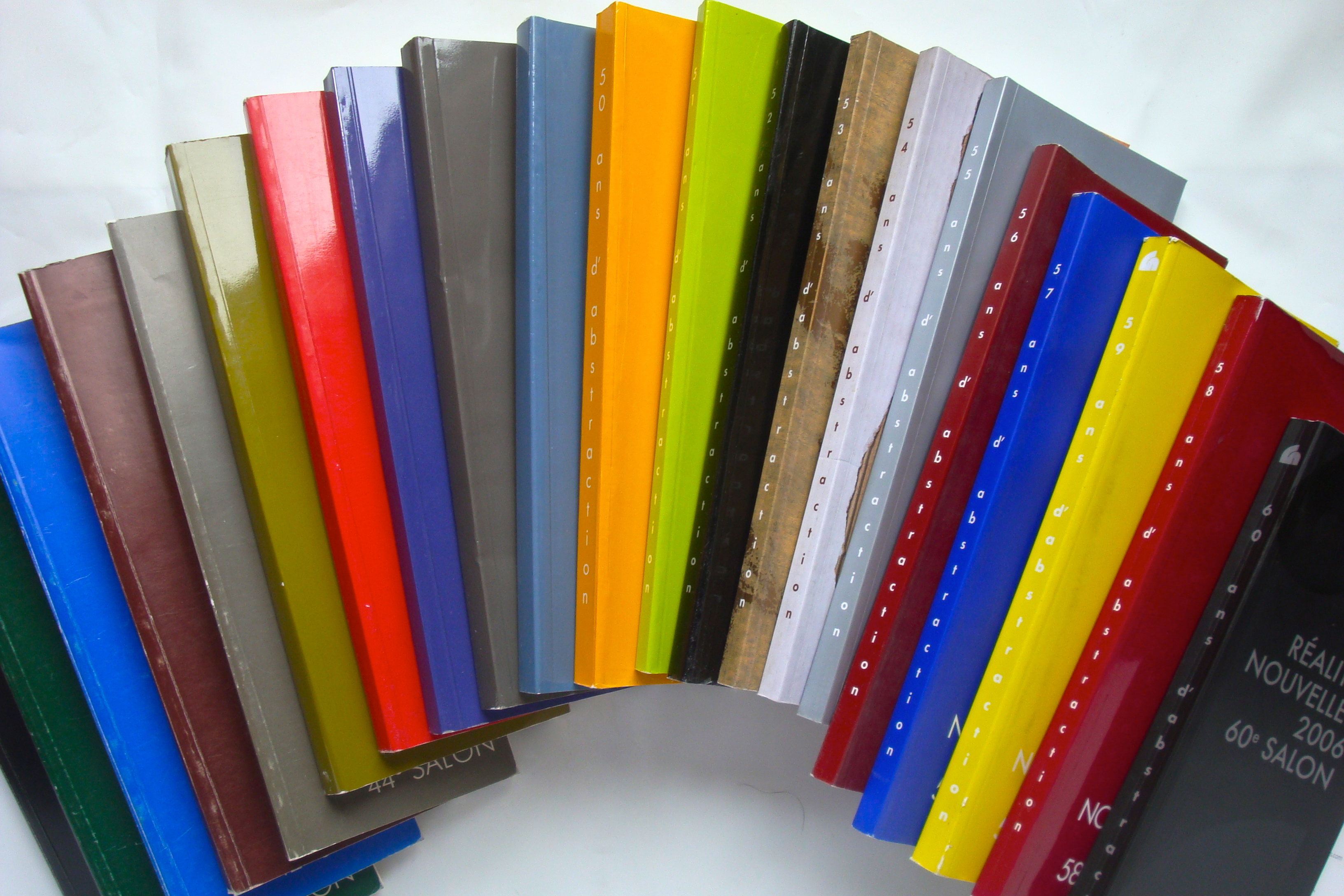 catalogs from the Salon des Réalités Nouvelles, Paris from1960 to 2006